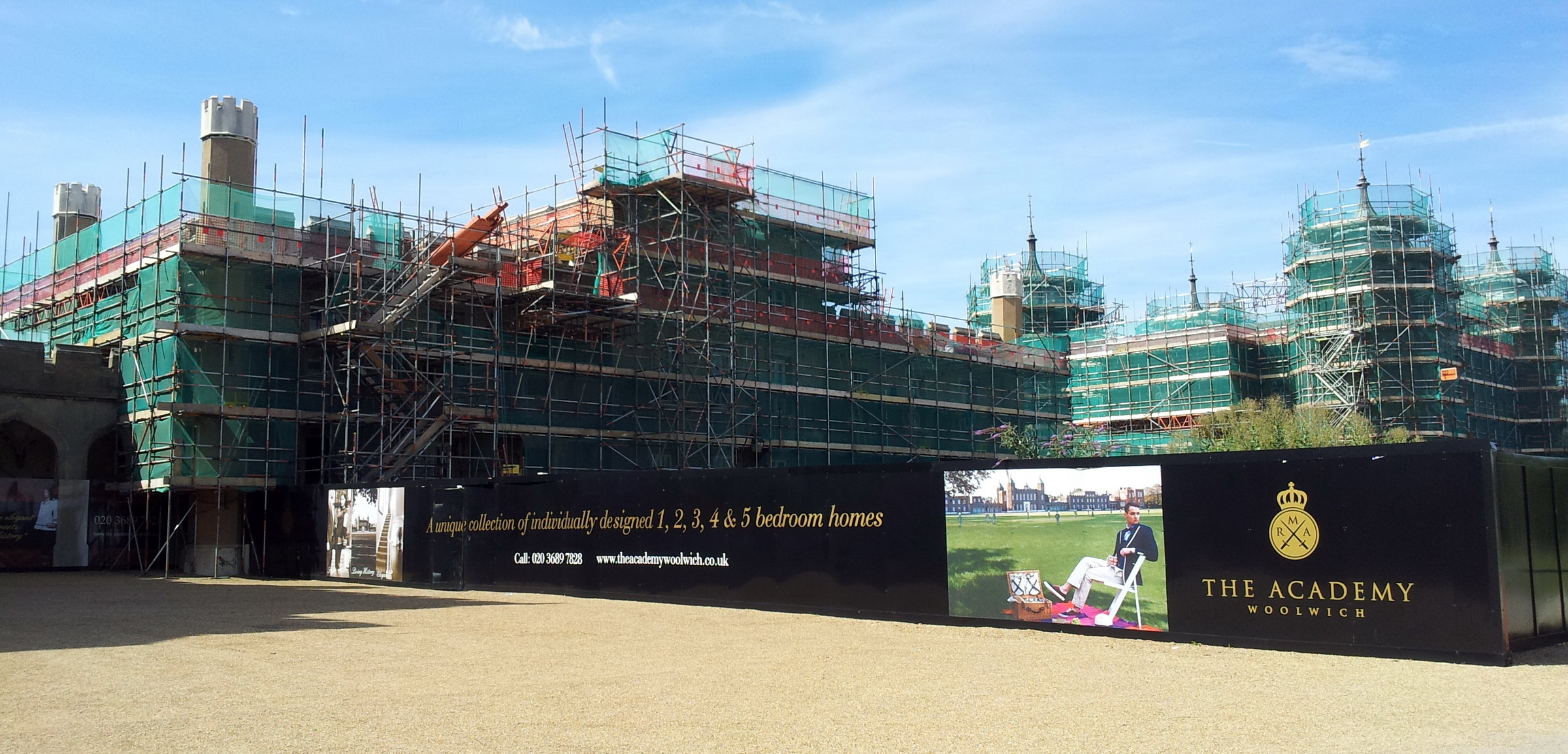 View from the east of the former Royal Military Academy in Woolwich, Southeast London. The buildings are now being developped into apartments.